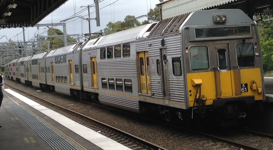 Sydney Trains K Set at Strathfield Train Station